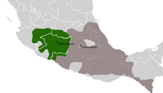 The location of the Tarascan state in relation to the Aztec Empire in Mexico.